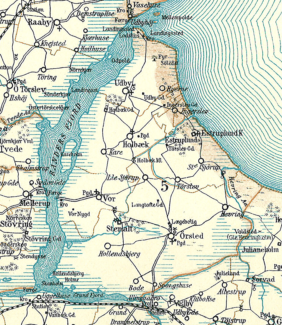 Map of the western part of Randers County in Denmark